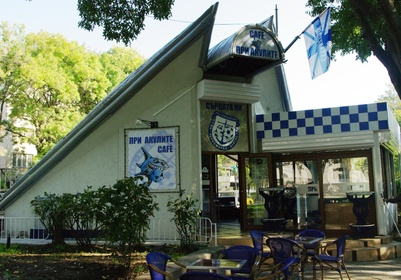 Fanclub Chernomorez